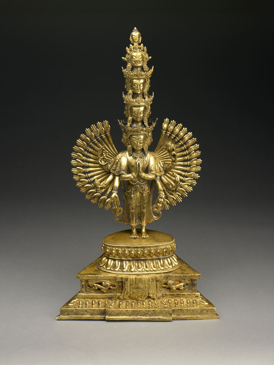 Tibetan gilt bronze statue of Thousand-Armed Avalokitesvara, Qing Dynasty, Tibetan-Chinese Artist